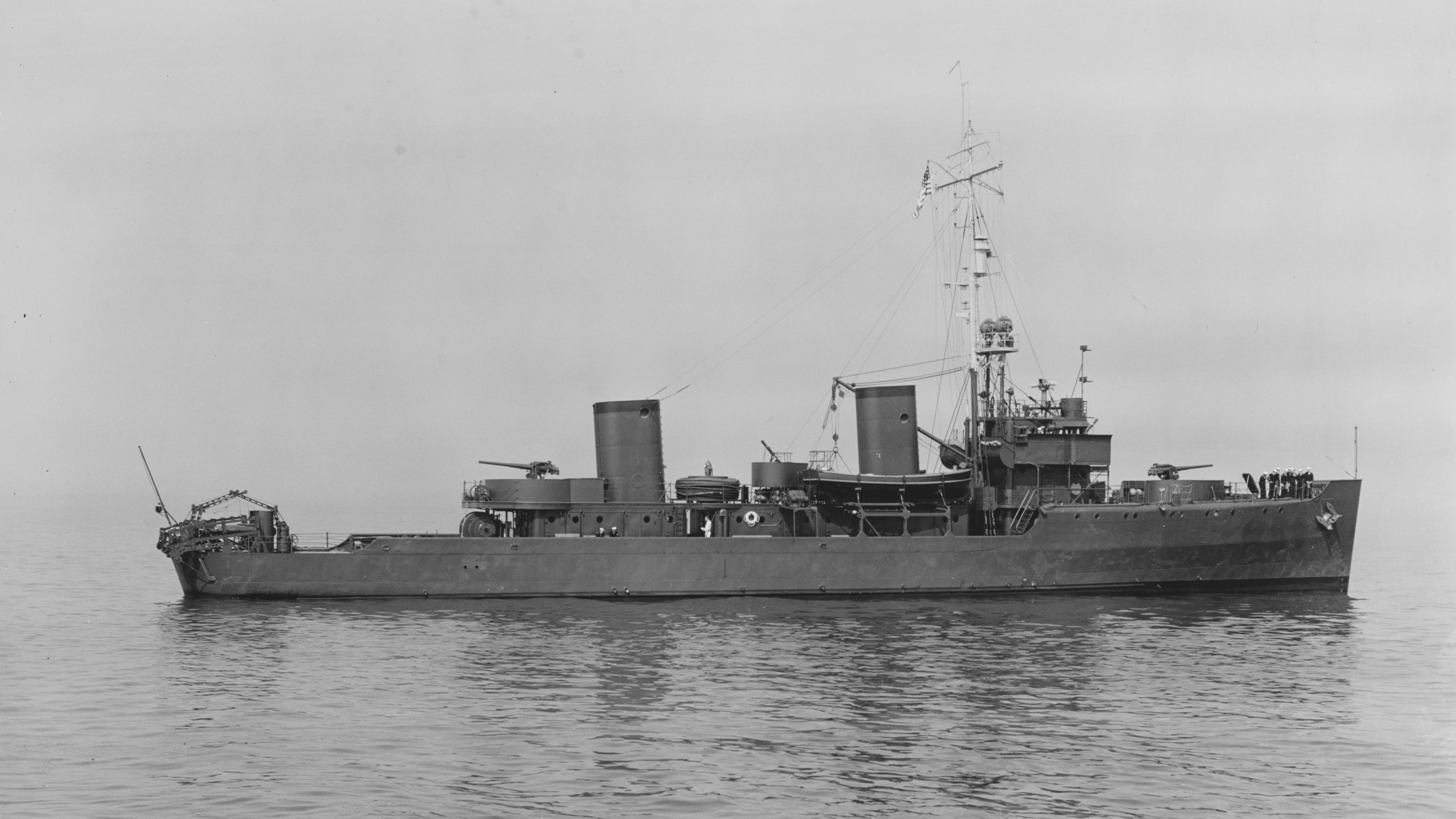 (AM-56) Off the Norfolk Navy Yard, Portsmouth, Virginia, 19 April 1941. Photograph from the Bureau of Ships Collection in the U.S. National Archives.